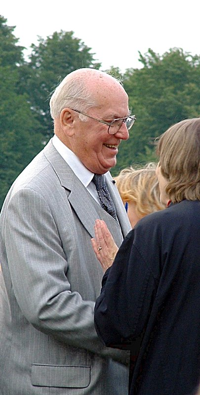 Lennart Meri (1929–2006), President of Estonia (1992–2001), meets with members of the public at the 2004 Song Festival in Tallinn.